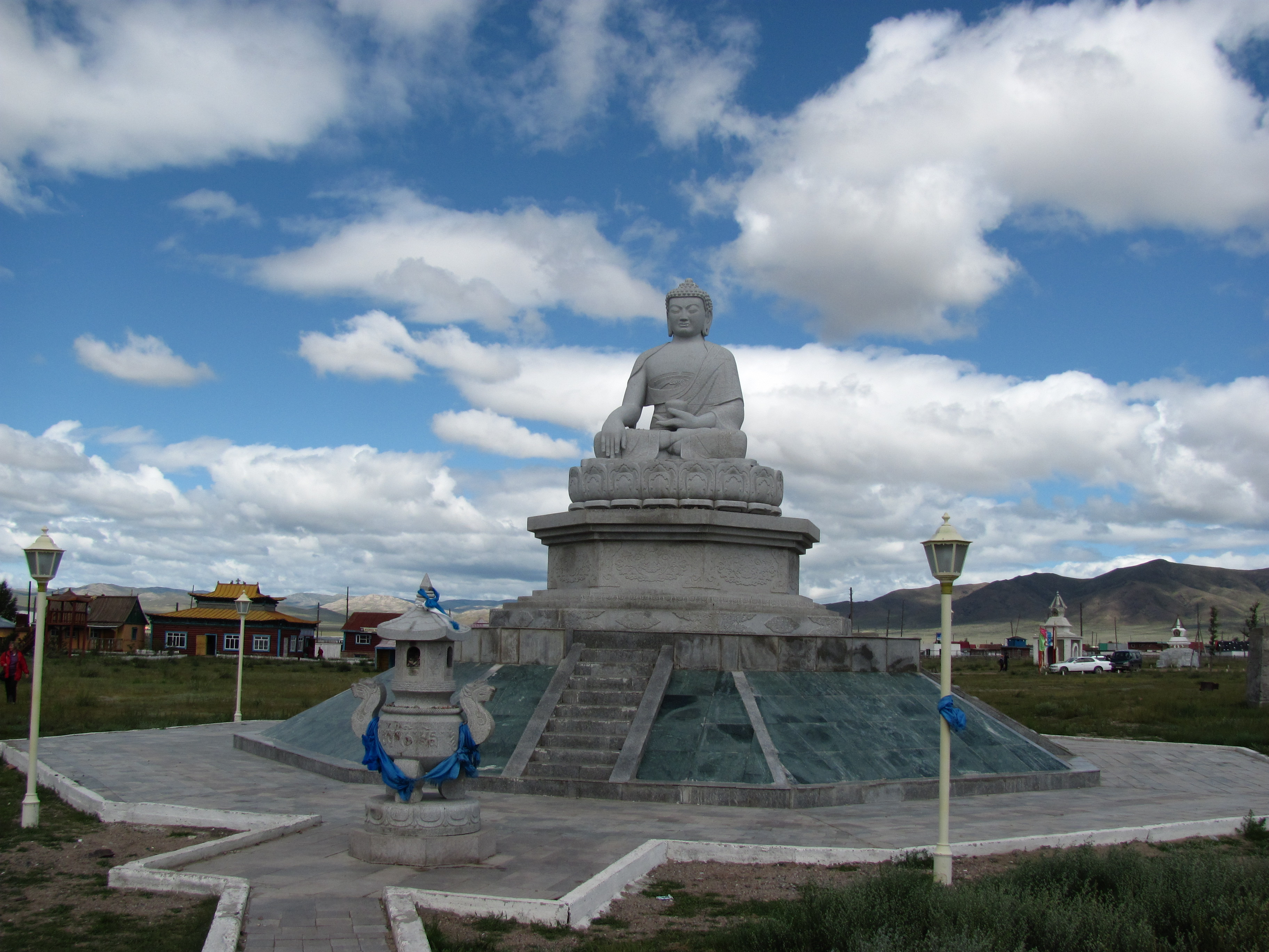 City of Mörön, Mongolia: Monastery Danzandarjaa Khiid, Lord Buddha Statue